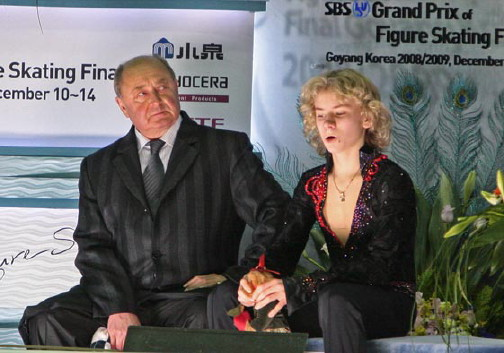 Artur GACHINSKI (RUS) and Alexei Mishin at the Grand Prix Final 2008 – Juniors